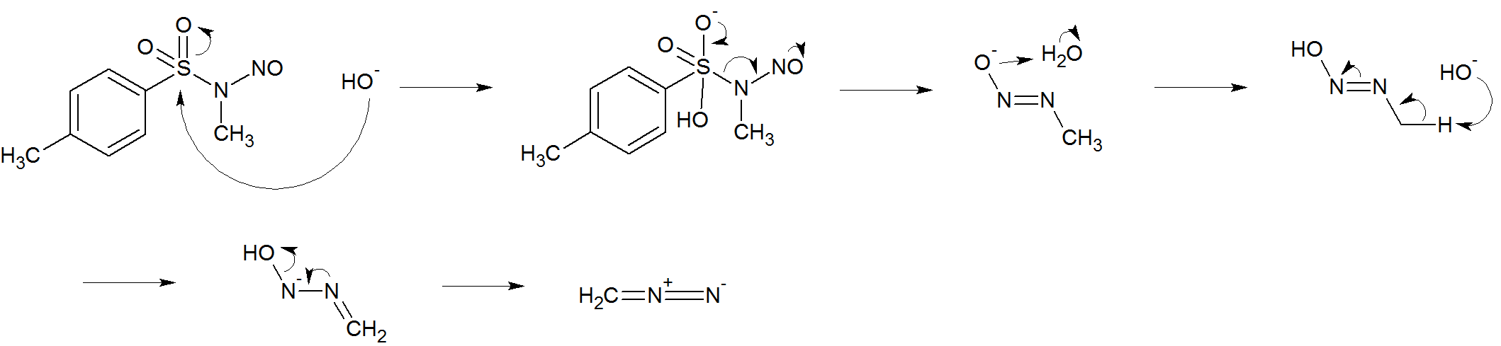 Mechanism Formation Diazomethane